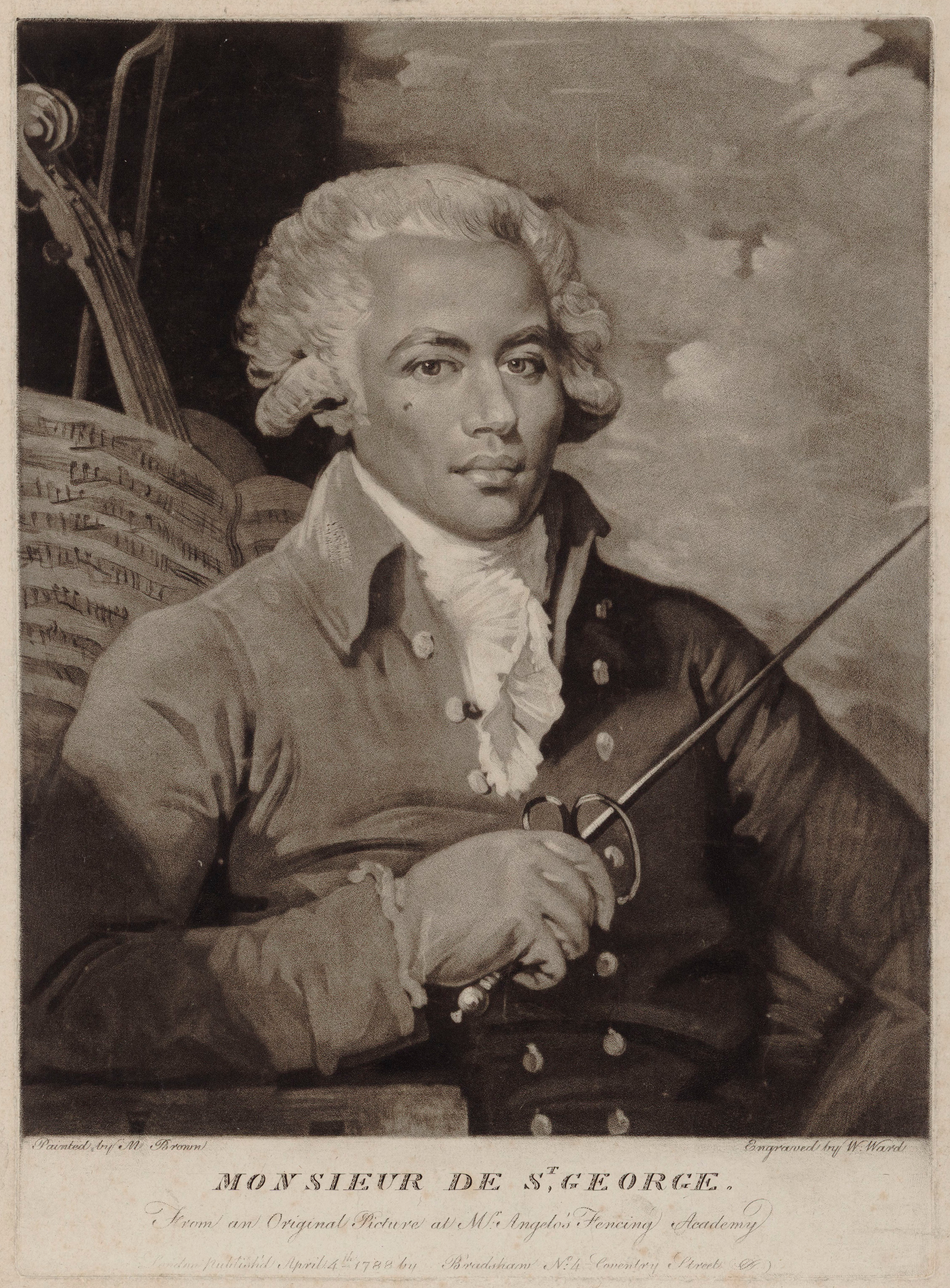 Chevalier de Saint-Georges (1745-1799) was one of the earliest musicians of African ancestry in the world of European classical music.